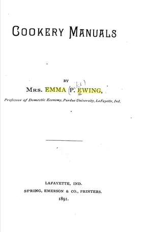 Cookery Manuals, By Emma Pike Ewing